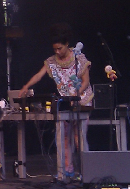 Joy Frempong aka "Oy" at Pfingsttheatron 2013, Munich, Germany